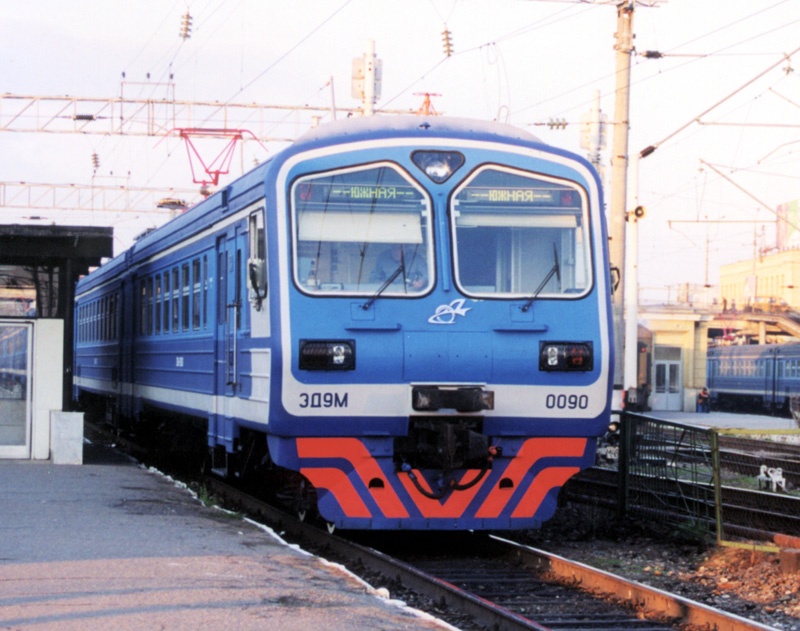 Electric multiple unit ED9M-0090 in Volgograd railway station.